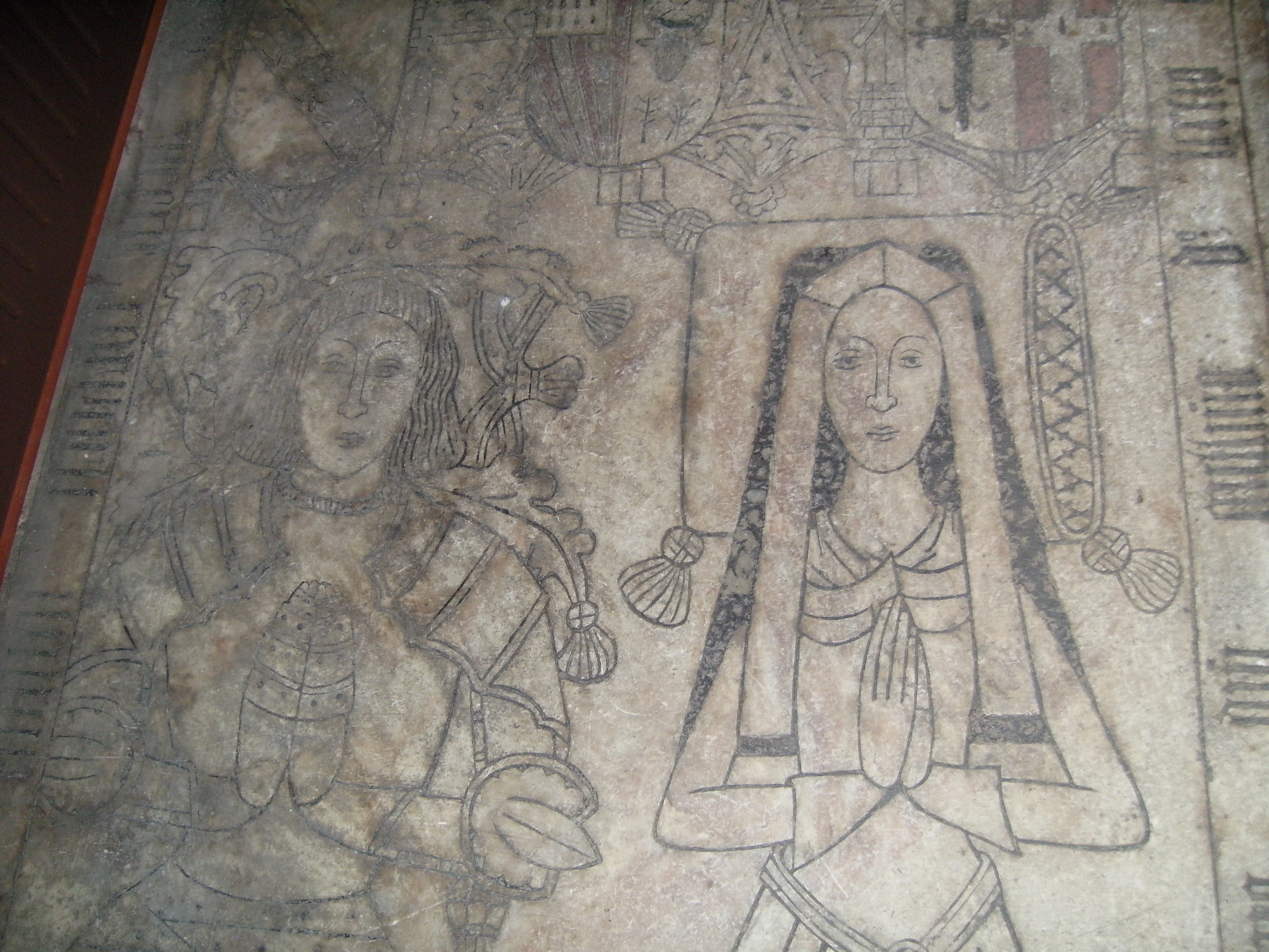 St. Michael and All Angels parish church, Penkridge, Staffordshire: tomb of William Wynnesbury and his wife